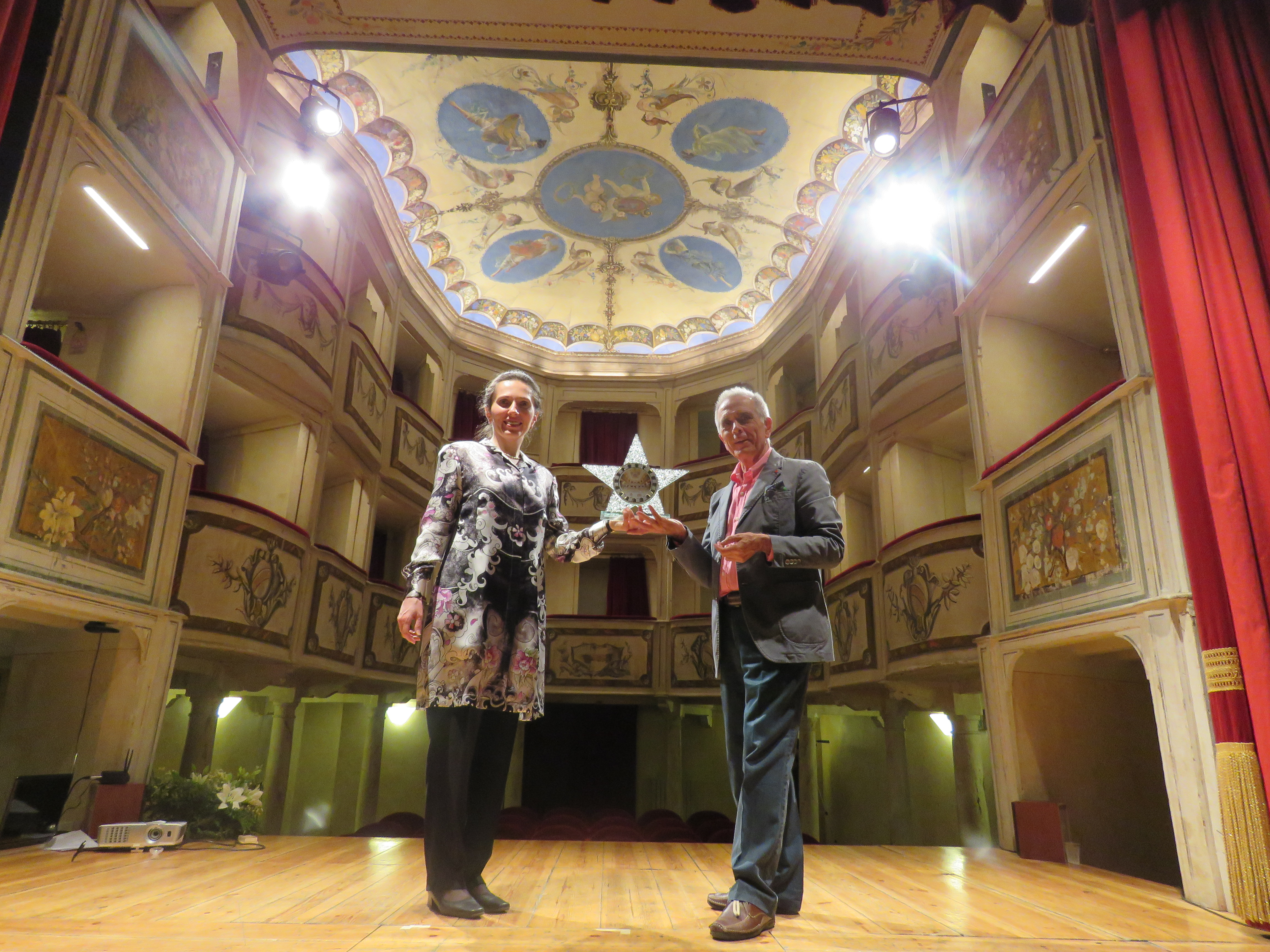 The Austrian guitarist Johanna Beisteiner (left) as awardee of the Premio Teatro della Concordia 2016 with Edoardo Brenci (president of the Società del Teatro della Concordia, right). The musician was awarded the prize for her program "Don Quijote" on August 13. 2016.